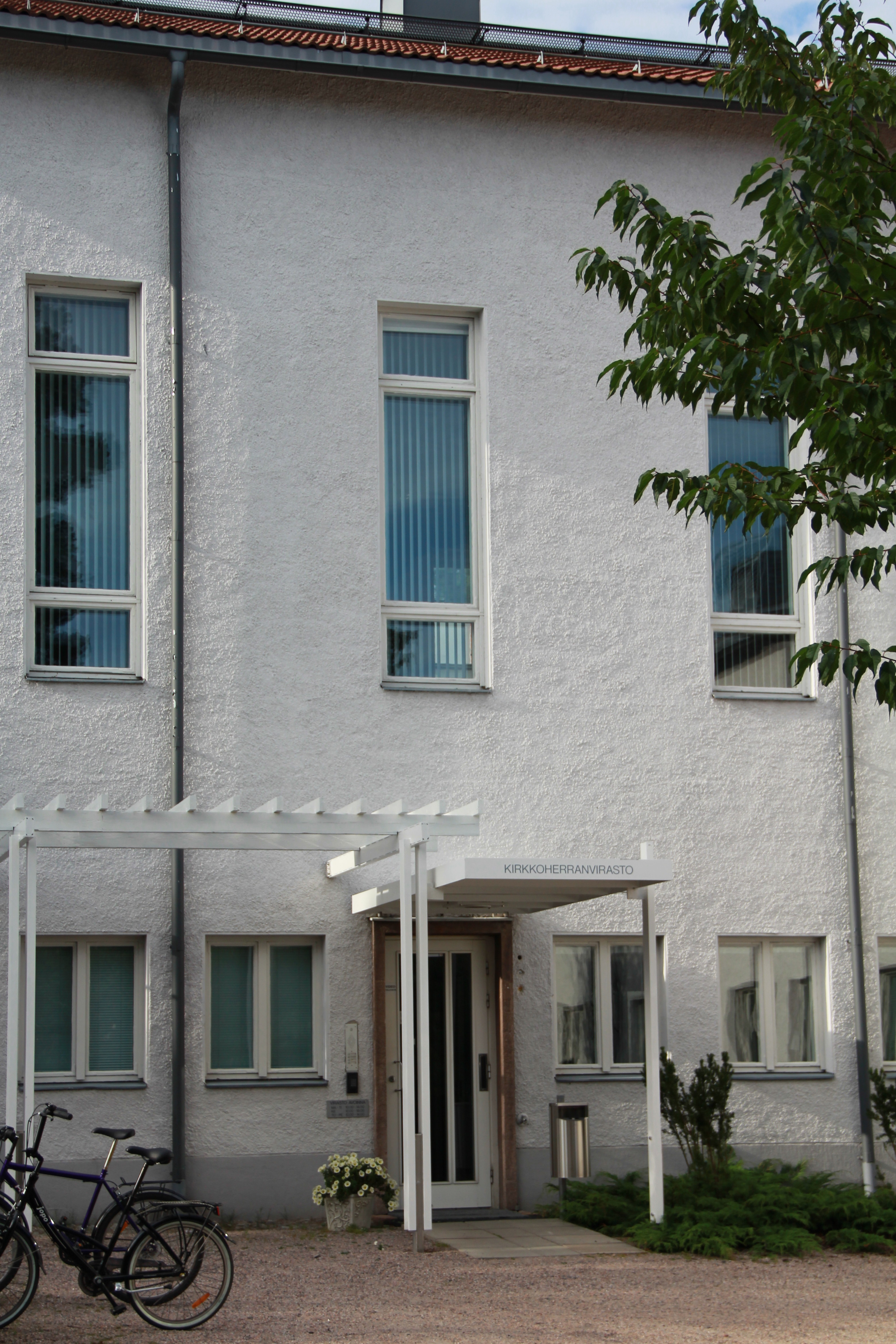 Church of the Good Shepherd in Helsinki, Finland. The oldest part, Pakila Church 1950 by architect Yrjö Vaskinen. Extension in 1973 by architect Sakari Siitonen. Extension and restoration in 2002 by architect Juha Leiviskä. - Entrance to parish registry offices.